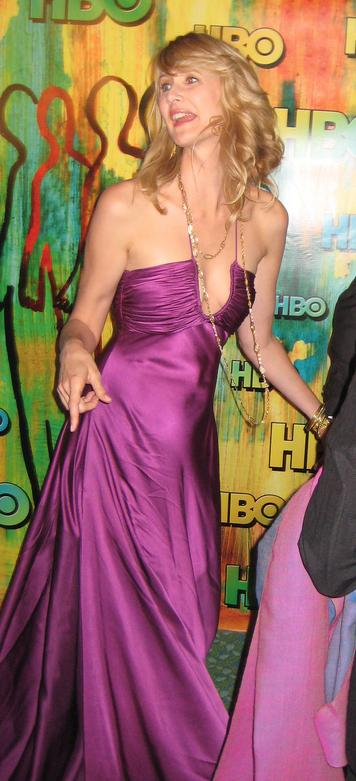 Actress Laura Dern at HBO Post-Emmys Party in 2008